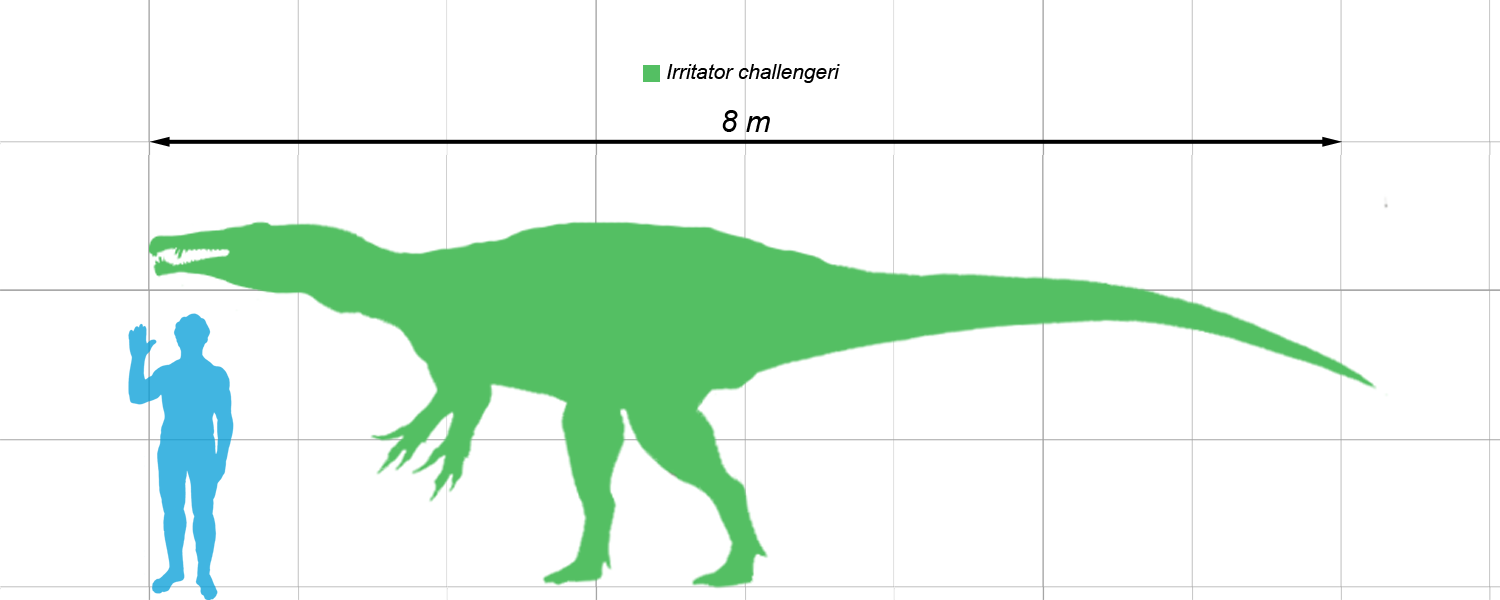 Size comparison of Irritator challengeri and a human. Modified from a illustrations of Spinosaurus by ArthurWeasley and Steveoc 86.